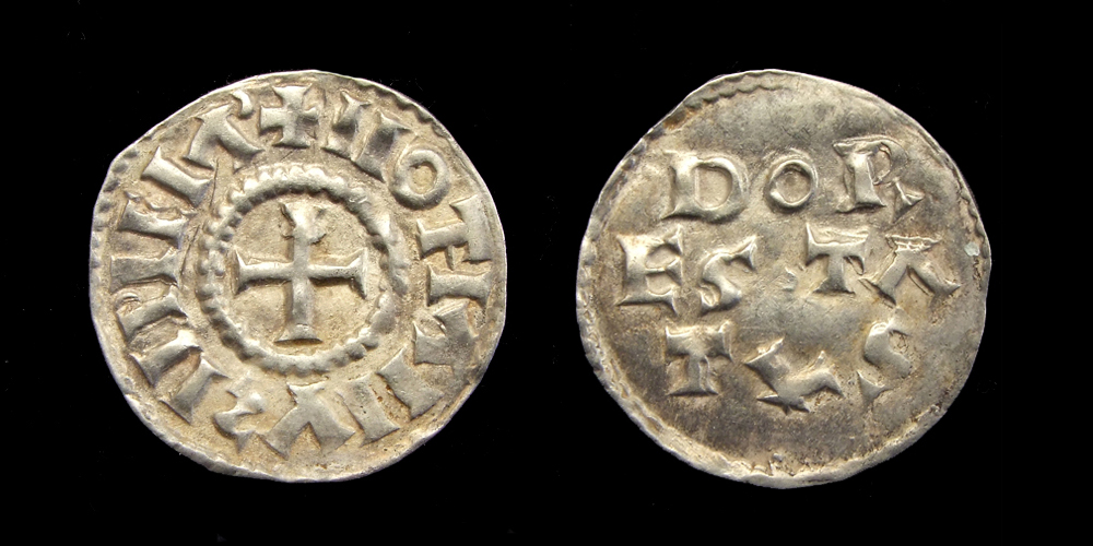 Carlongian denier, Lothair I (840-855), struck in Dorestad after 850 AD. Obverse: short cross and legend around +IIOTIAIIVS IIPIEIA (retrograde S). Reverse: city name in three lines: DOR ES.TA TVS.